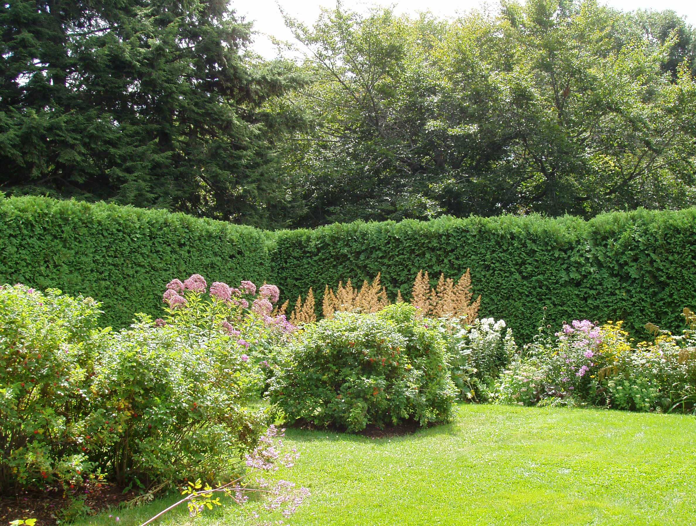 Gore Place, Waltham, Massachusetts - detail of gardens. Photograph taken by me, August 2005.